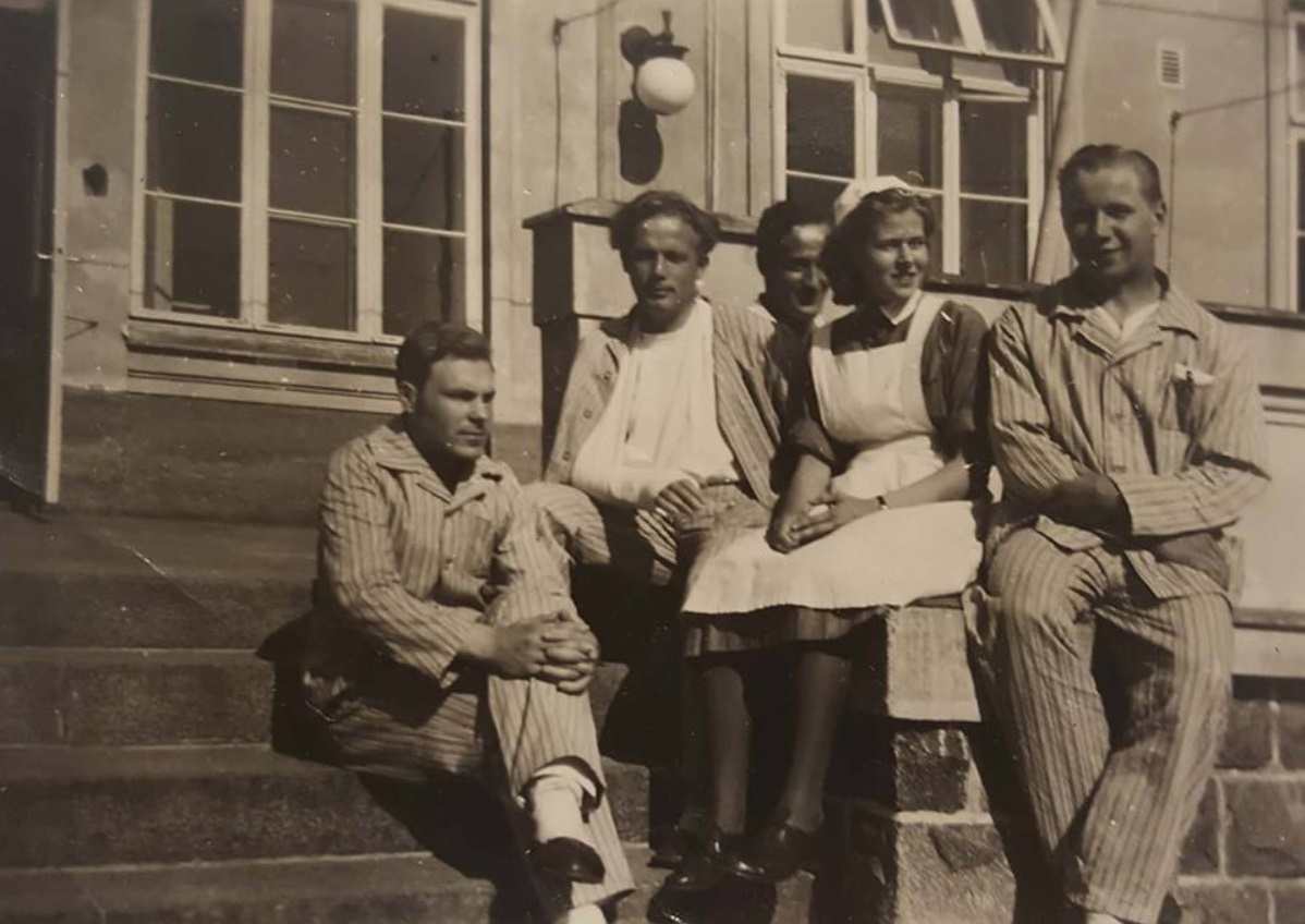 Picture from 1942, Viborg.